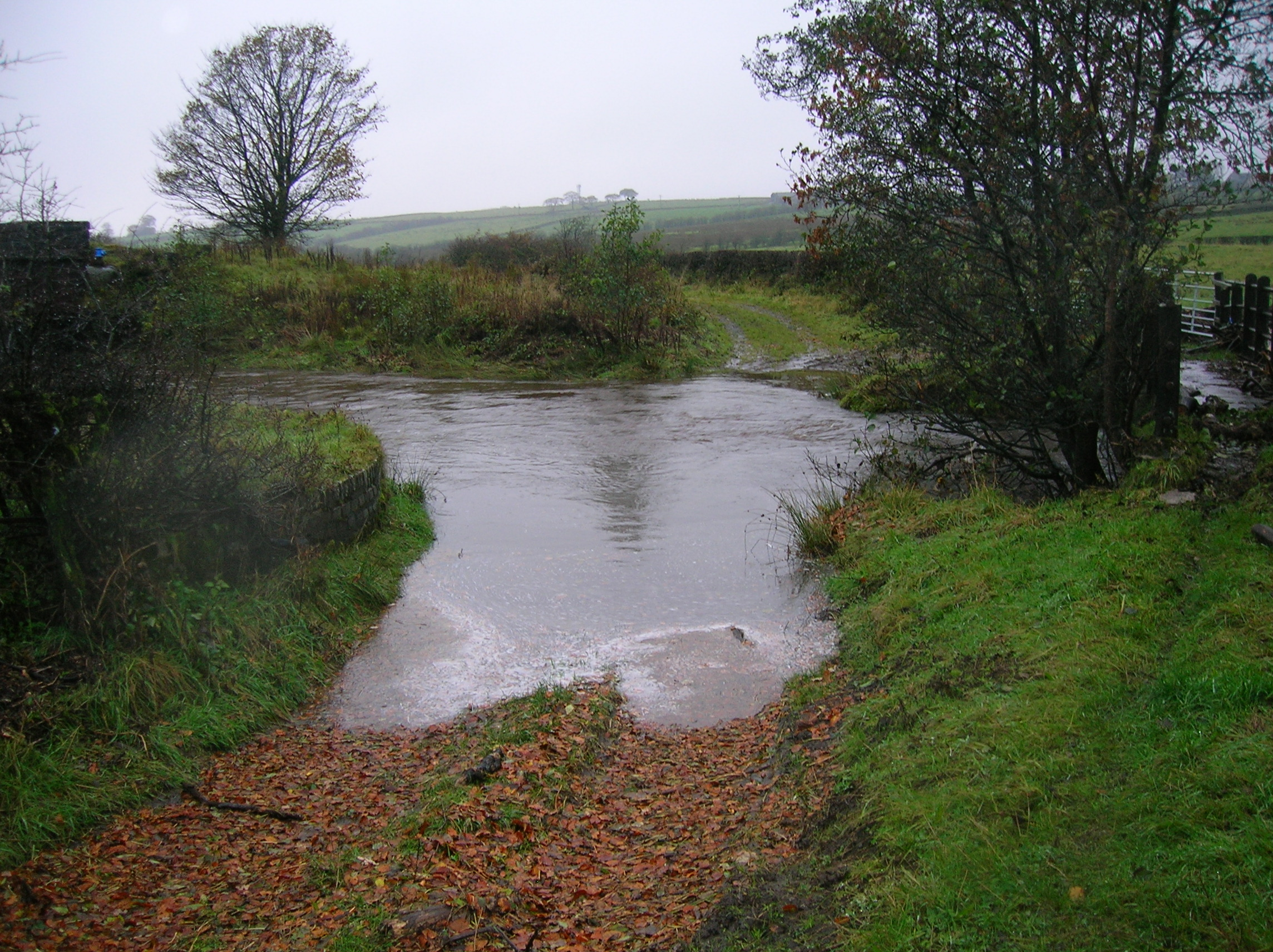 The ford over the Maich Water, the Kerse, North Ayrshire, Scotland